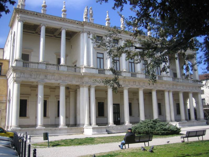 Palazzo Chiericati (Vicenza), Italy